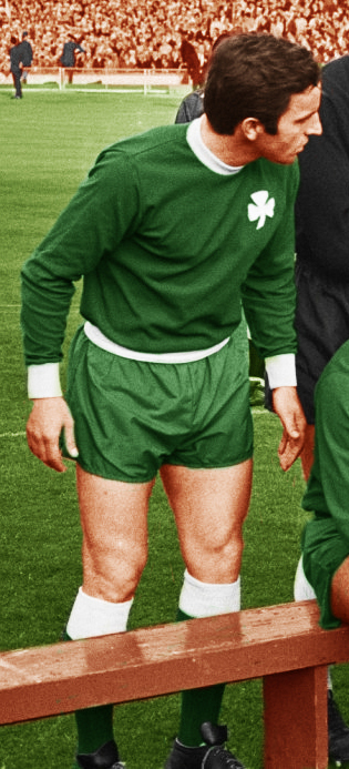 Aristidis Kamaras Panathinaikos - Ajax, Wembley, 1971